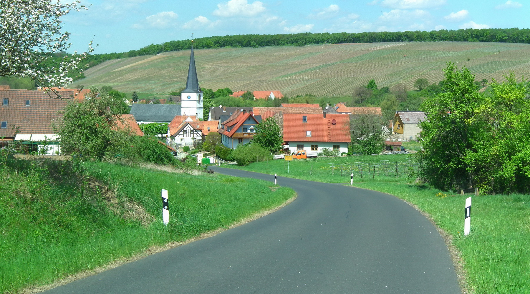 Village of Obervolkach, Volkach, Lower Franconia, Germany